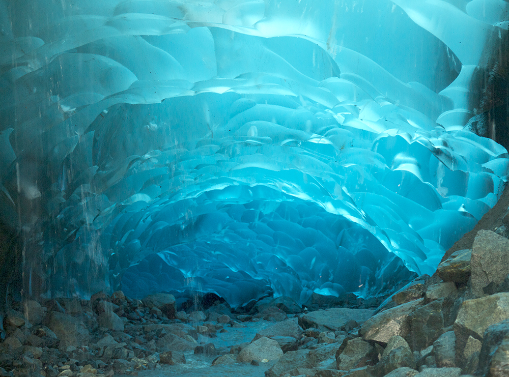 Mendenhall Glacier Ice